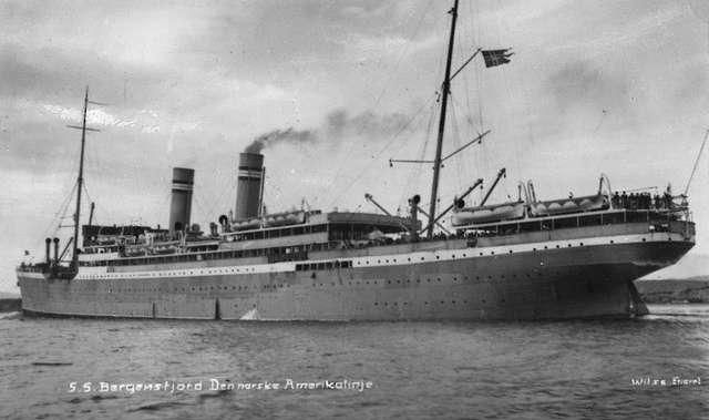 Norwegian steamship SS Bergensfjord, built in 1913.